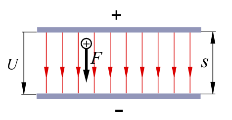 Homogen electric field